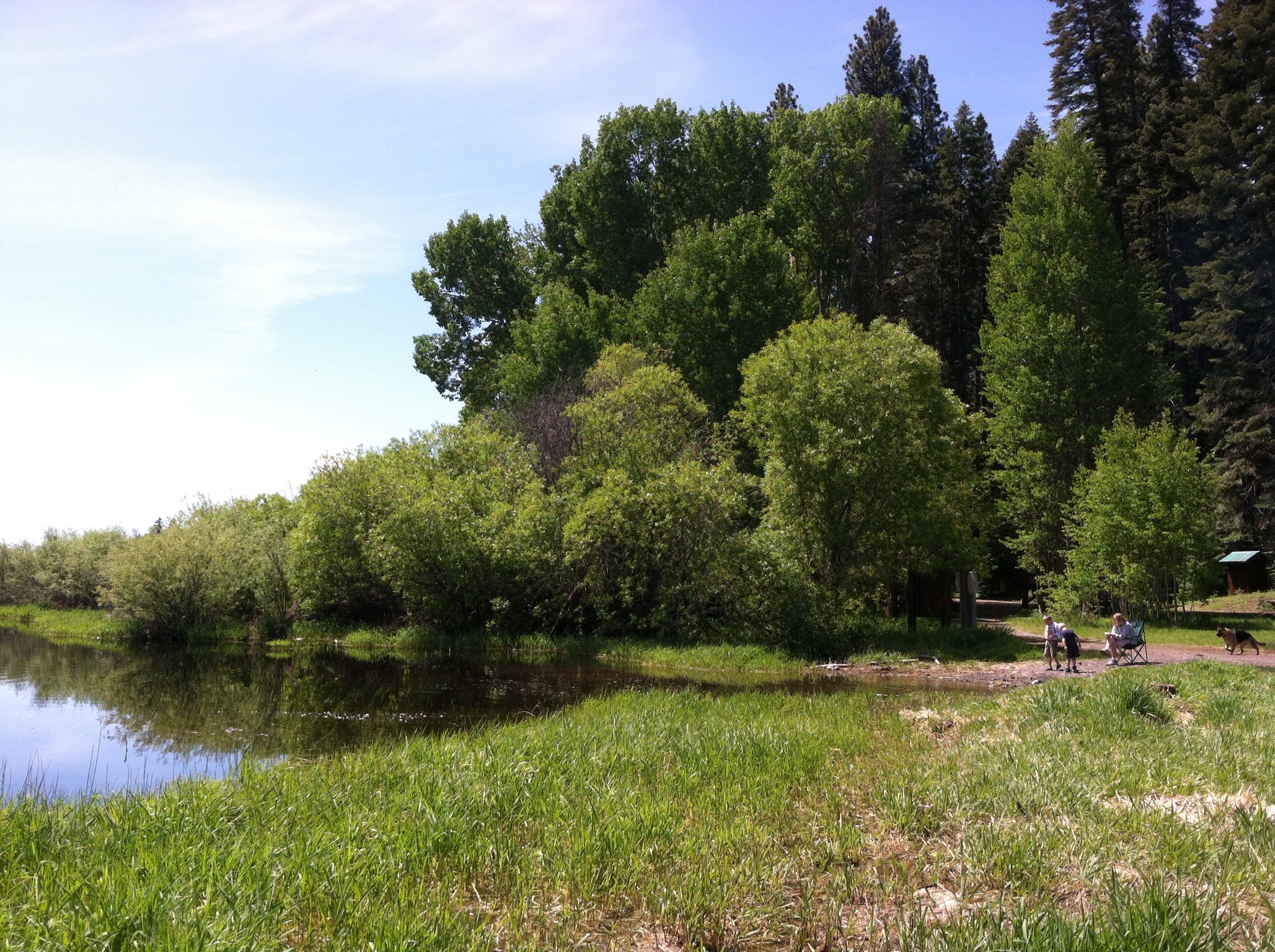 Malone spring boat launch